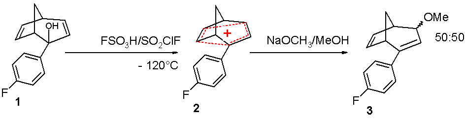 Bishomoantiaromatic Bicyclo[3.2.1]octa-3,6-dien-2-yl cation